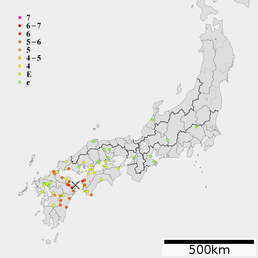 1854 Bungo earthquake intensity